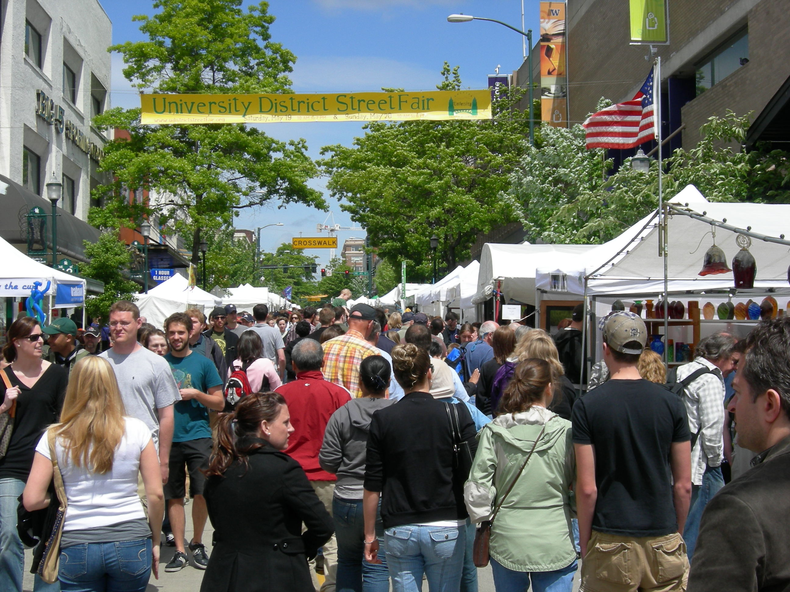 University District Street Fair, University District, Seattle, Washington.